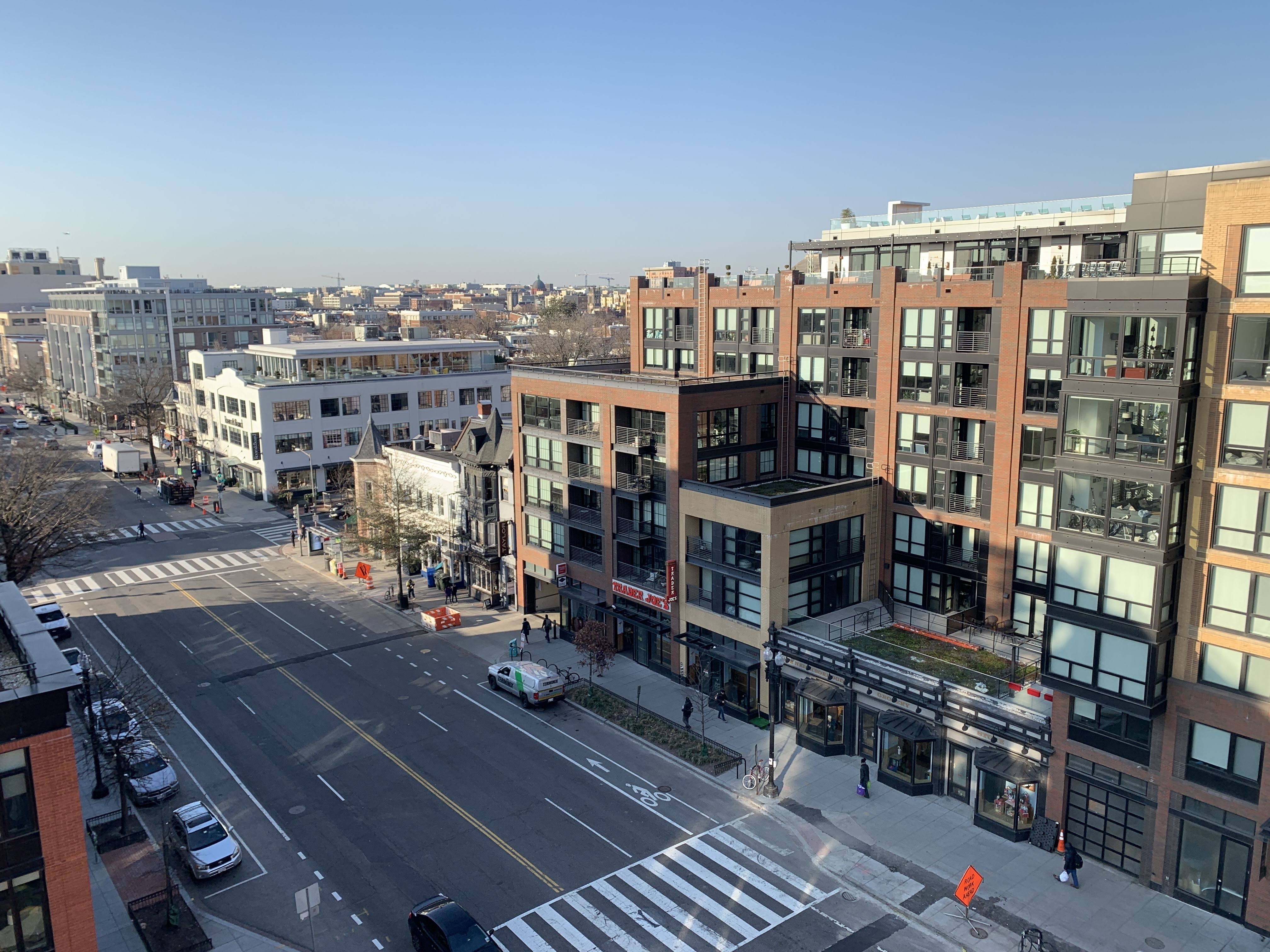 Retail and new apartment buildings along 14th St. NW, U Street Corridor, Washington, D.C., February 2019